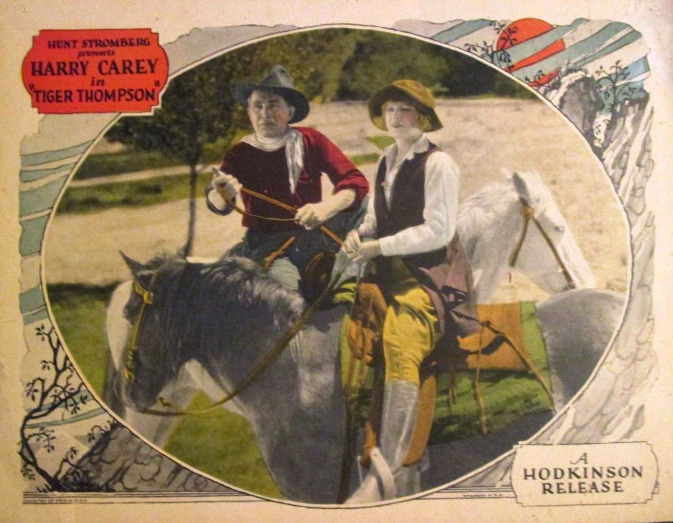 Lobby card for the American western film Tiger Thompson (1924). Searches were done in both film and artwork for the years 1951 and 1952. There were no listings for the film title nor any for either Hunt Stromberg or Hodkinson. There's no evidence of continuing copyright for the film or its related material.